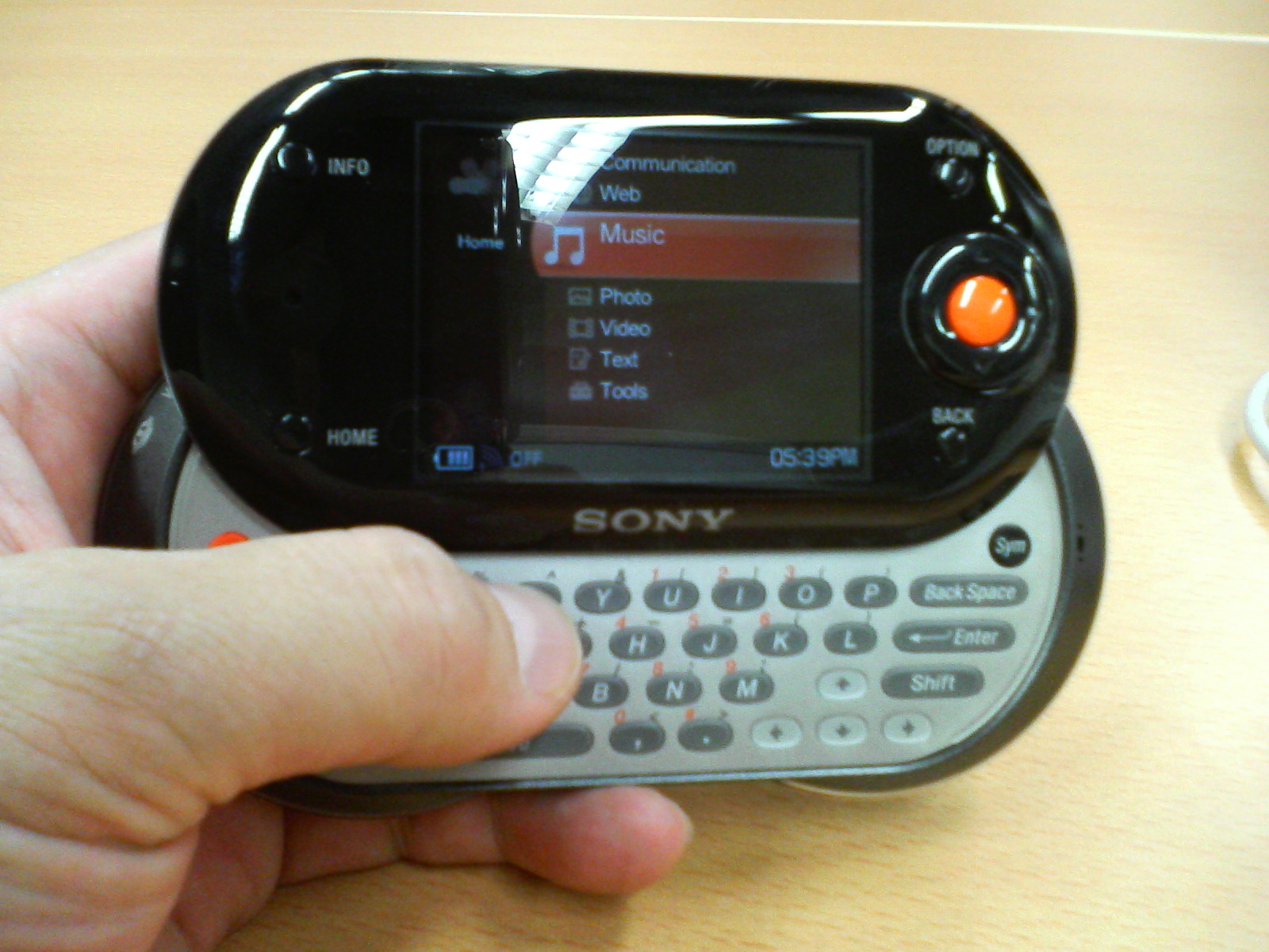 Sony mylo Personal Communicator (model COM-1/B)Sony mylo